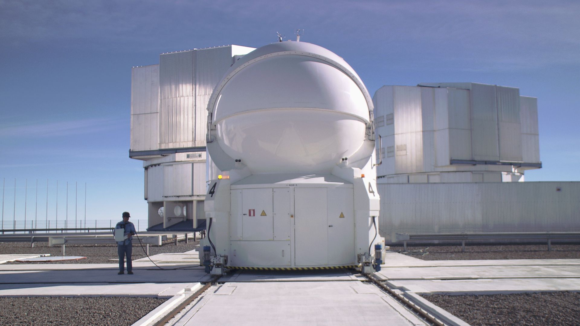 Translating one of the movable auxiliary telescopes of the VLT.